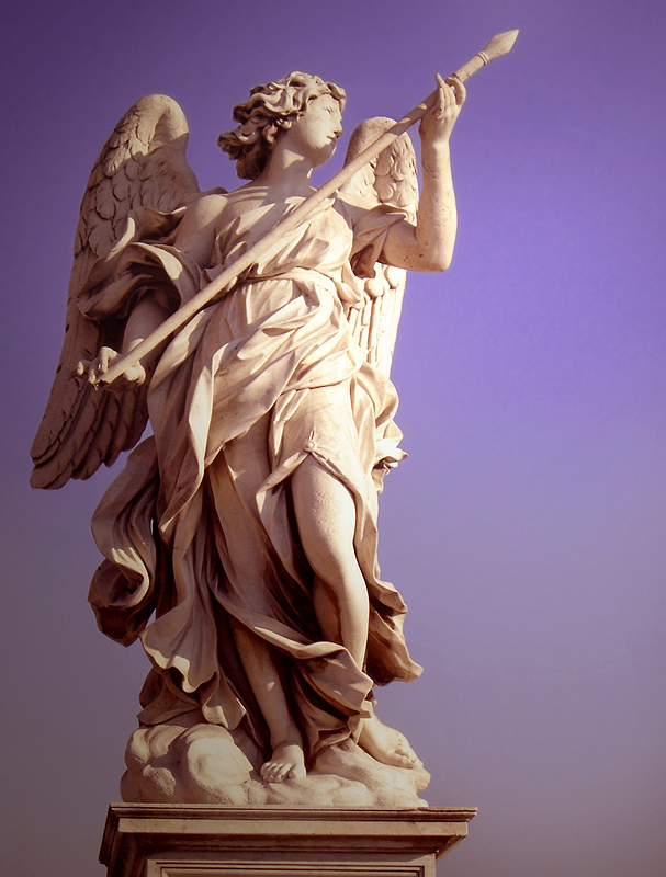 Vulnerasti cor meum, by Domenico Guidi. Ponte Sant'Angelo, Rome.